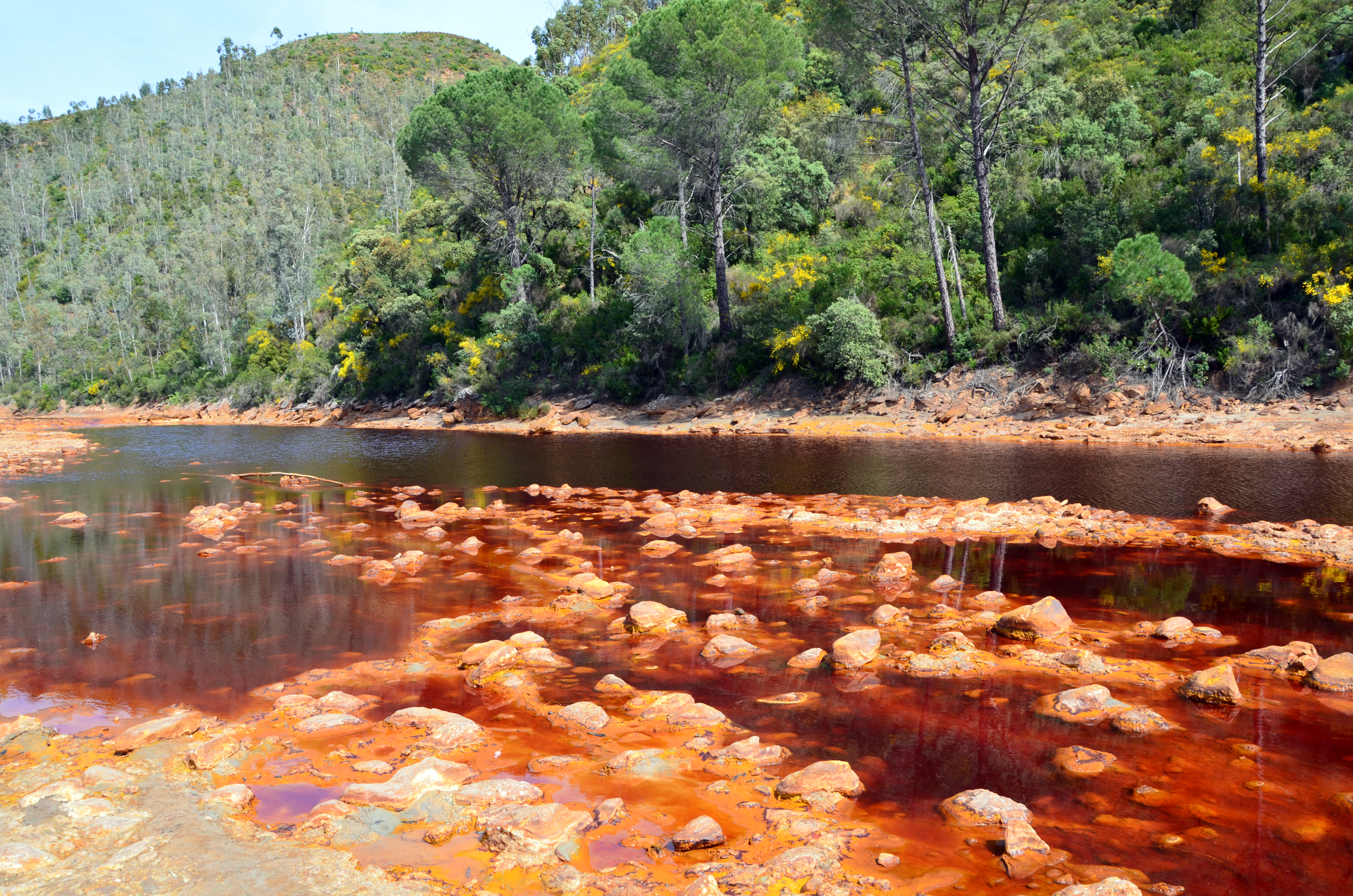 The Río Tinto (« red river »), spanish river of Andalusia (Spain) photographied from the touristic train of the Parque Minero de Riotinto, between Nerva and Berrocal (province of Huelva).